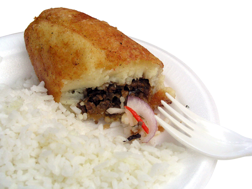 Traditional Peruvian dish: Papas Rellenas. Foto: Xauxa 2004